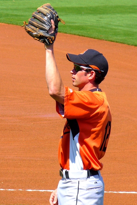 Brandon Fahey 03:56, 19 July 2007 . . Metsfan7 . . 467×700 (296,982 bytes)